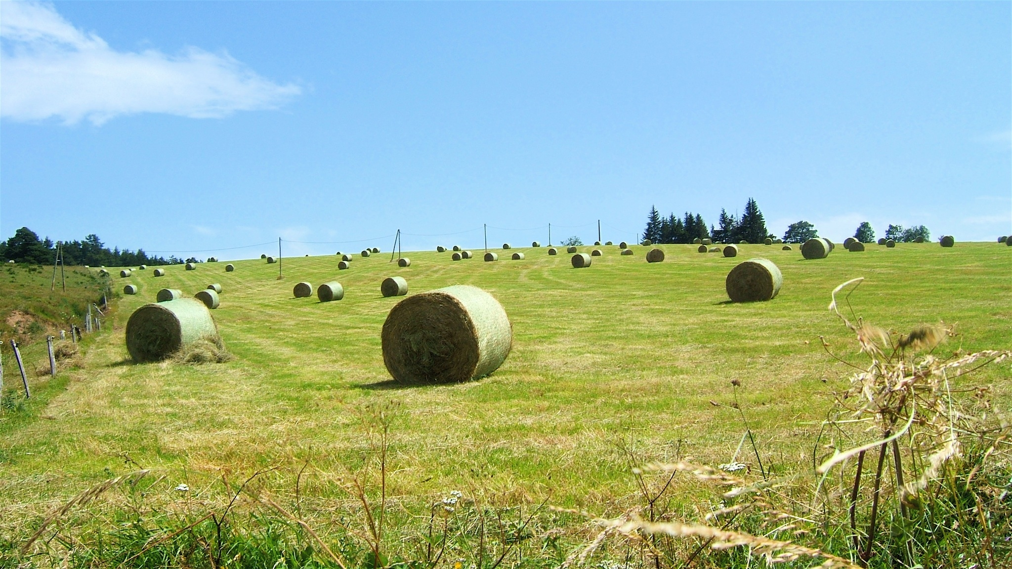 Hay on the Mezenc's Massif